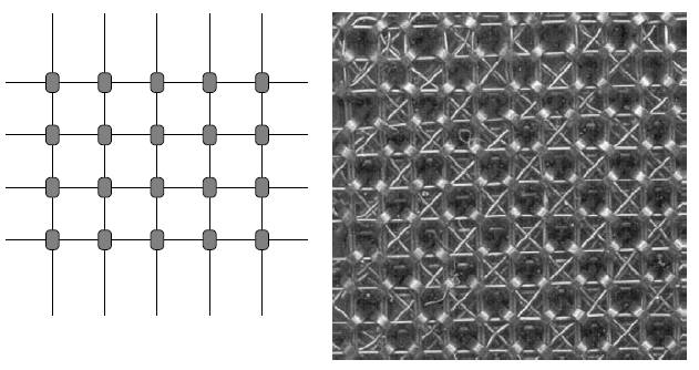 Ferrite cores